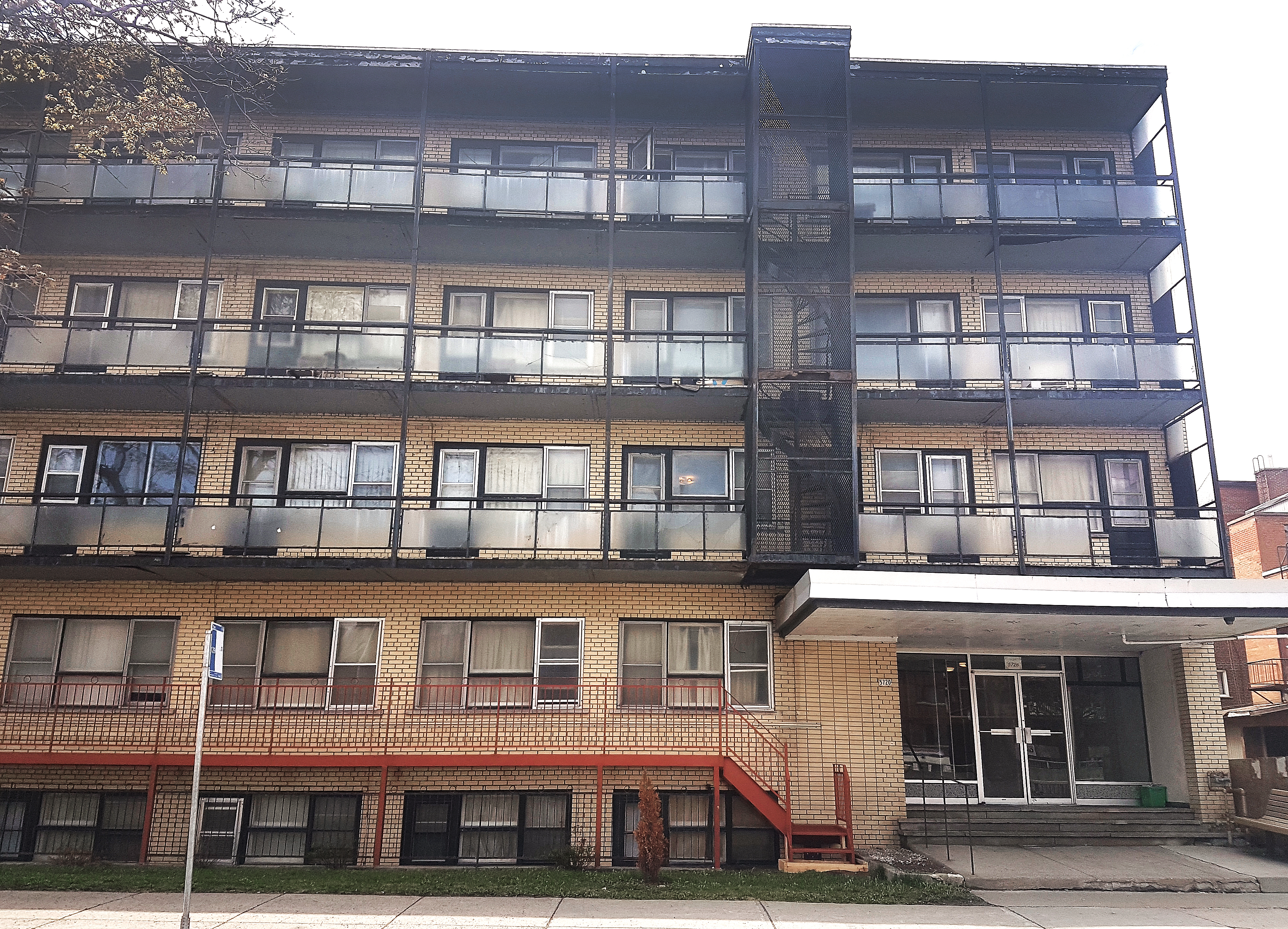 The residential building at 5720 Décarie Boulevard is seen on May 20, 2019 in Montreal, Québec, Canada. The murder of Jun Lin by Luka Rocco Magnotta took place in apartment 208 of 5720 Decarie Blvd on the night of May 24 to May 25, 2012. As per the City of Montreal, the building was built in 1963.